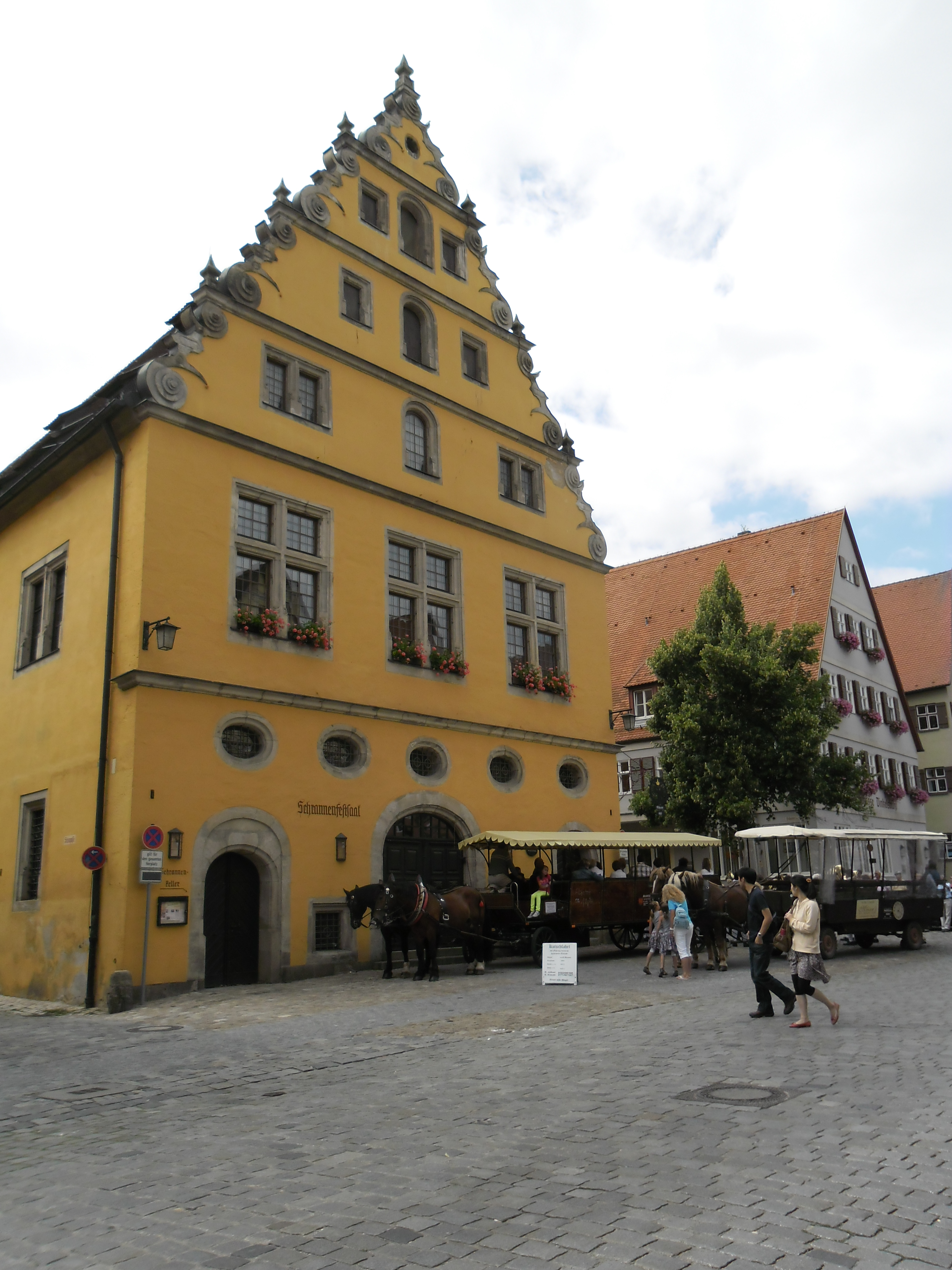 Former granary at Weinmarkt 7 in Dinkelsbühl